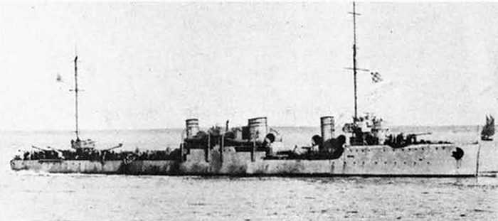 Side view of Engels (ex-Desna)